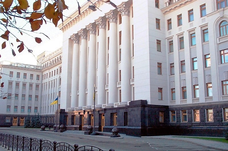 The Presidential Palace in the Pechersk neighbourhood of Kiev, Ukraine.